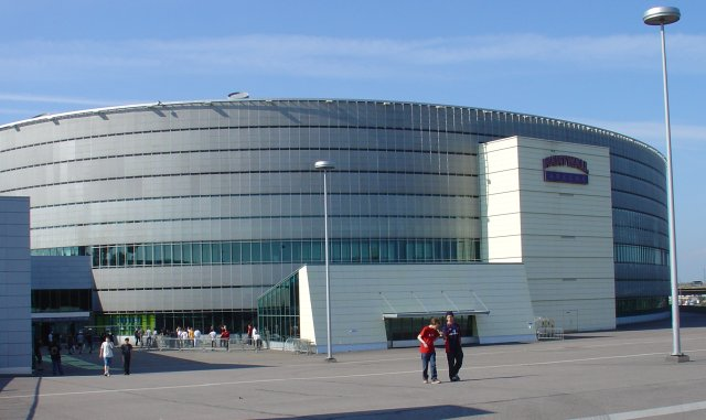 Hartwall Areena as seen from the south during the Assembly demo party event 2004.